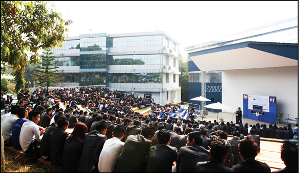 Students at the Tetso College Amphitheater